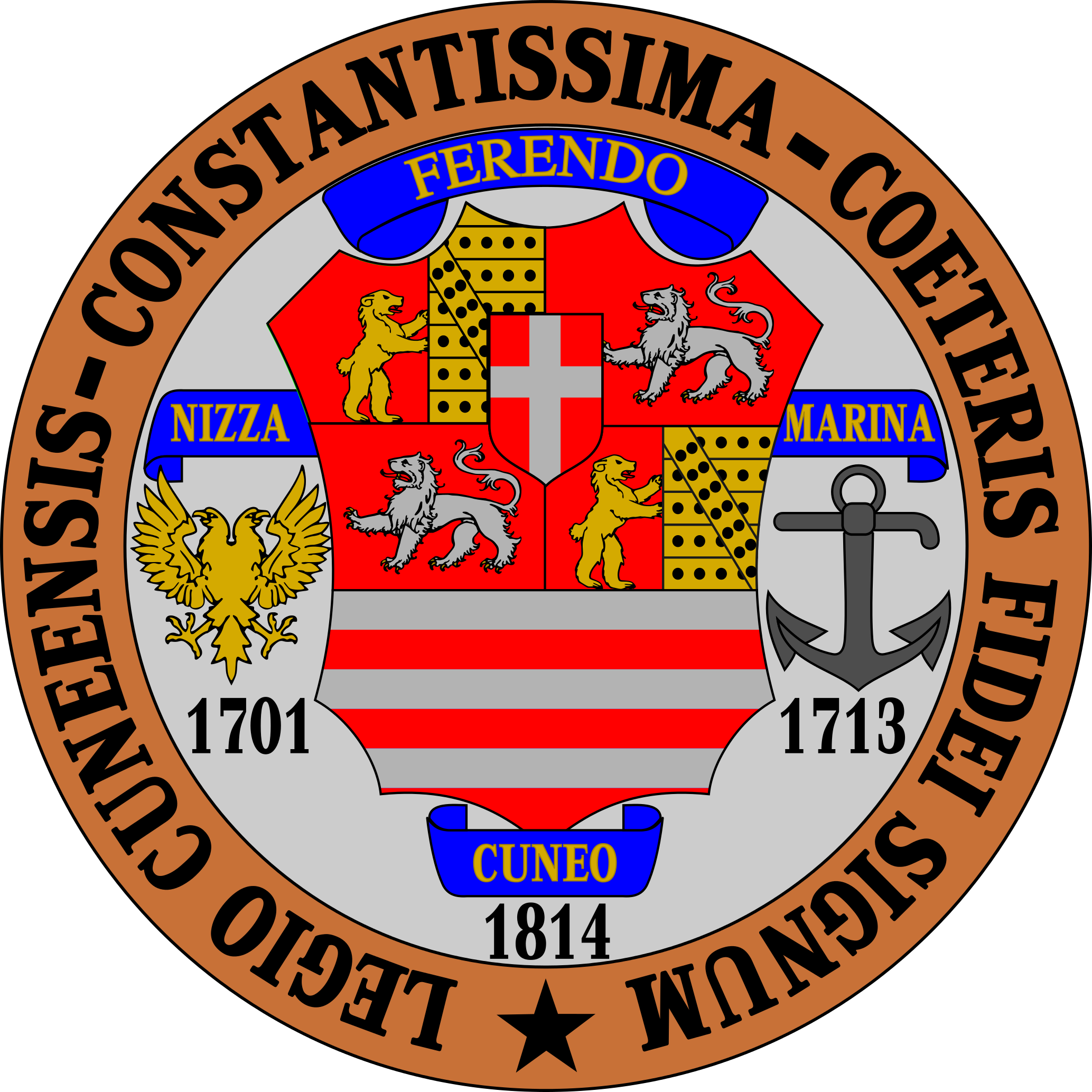 Coat of Arms of the 8th Infantry Regiment "Cuneo", Royal Italian Army, 1939